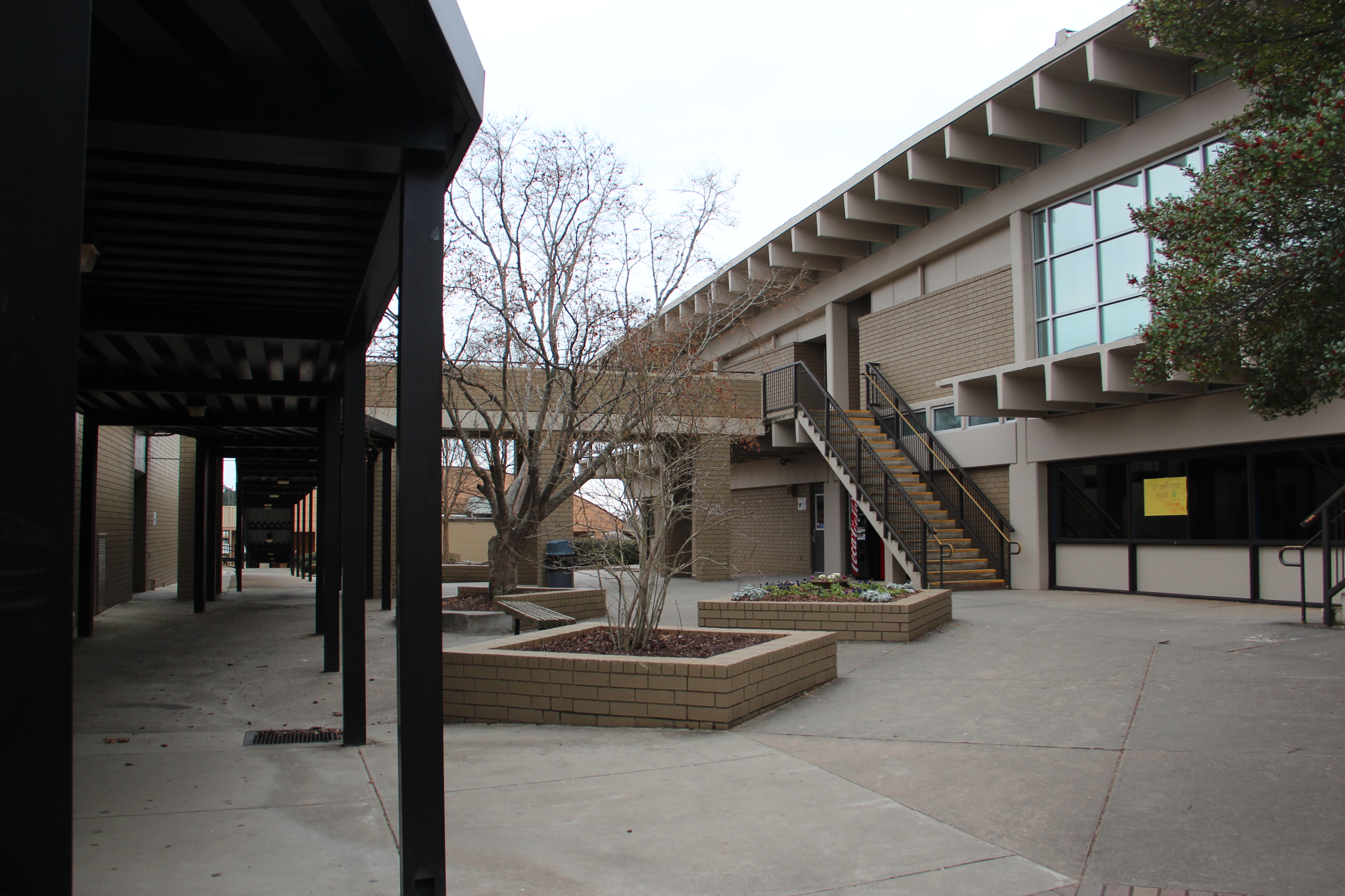 Etowah High School, Woodstock, Georgia